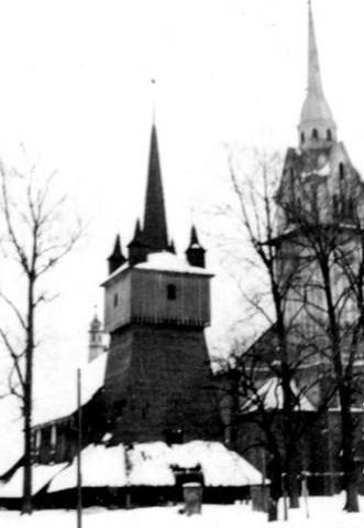 Old and new church in Komorowice (disctrict of Bielsko-Biala), 1931-1939